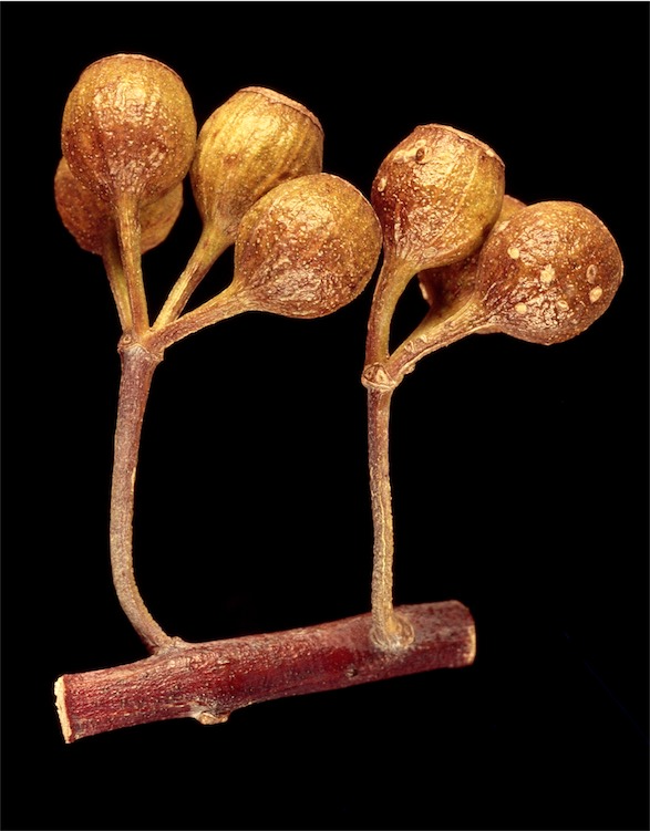 Fruit of Eucalyptus cylindriflora